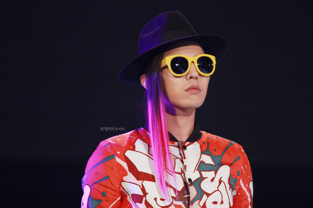 G-Dragon in 2012 at K-Collection